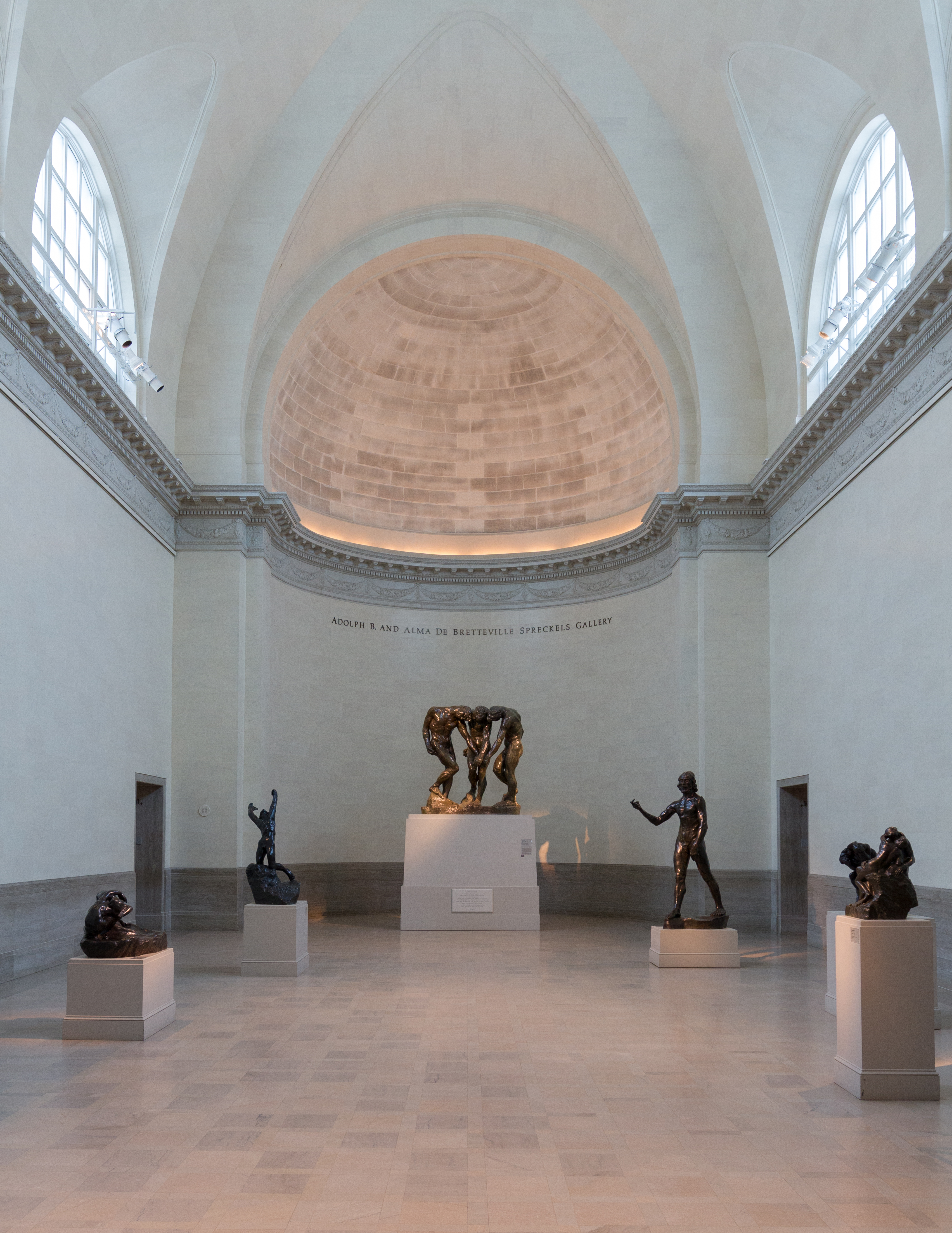 Adolph B. and Alma de Bretteville Spreckels Gallery at the San Francisco Legion of Honor